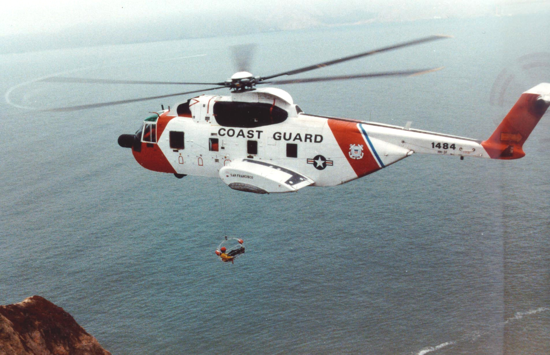 A U.S. Coast Guard Sikorsky HH-3F Pelican (s/n 1484) from Coast Guard Air Station San Francisco in flight.